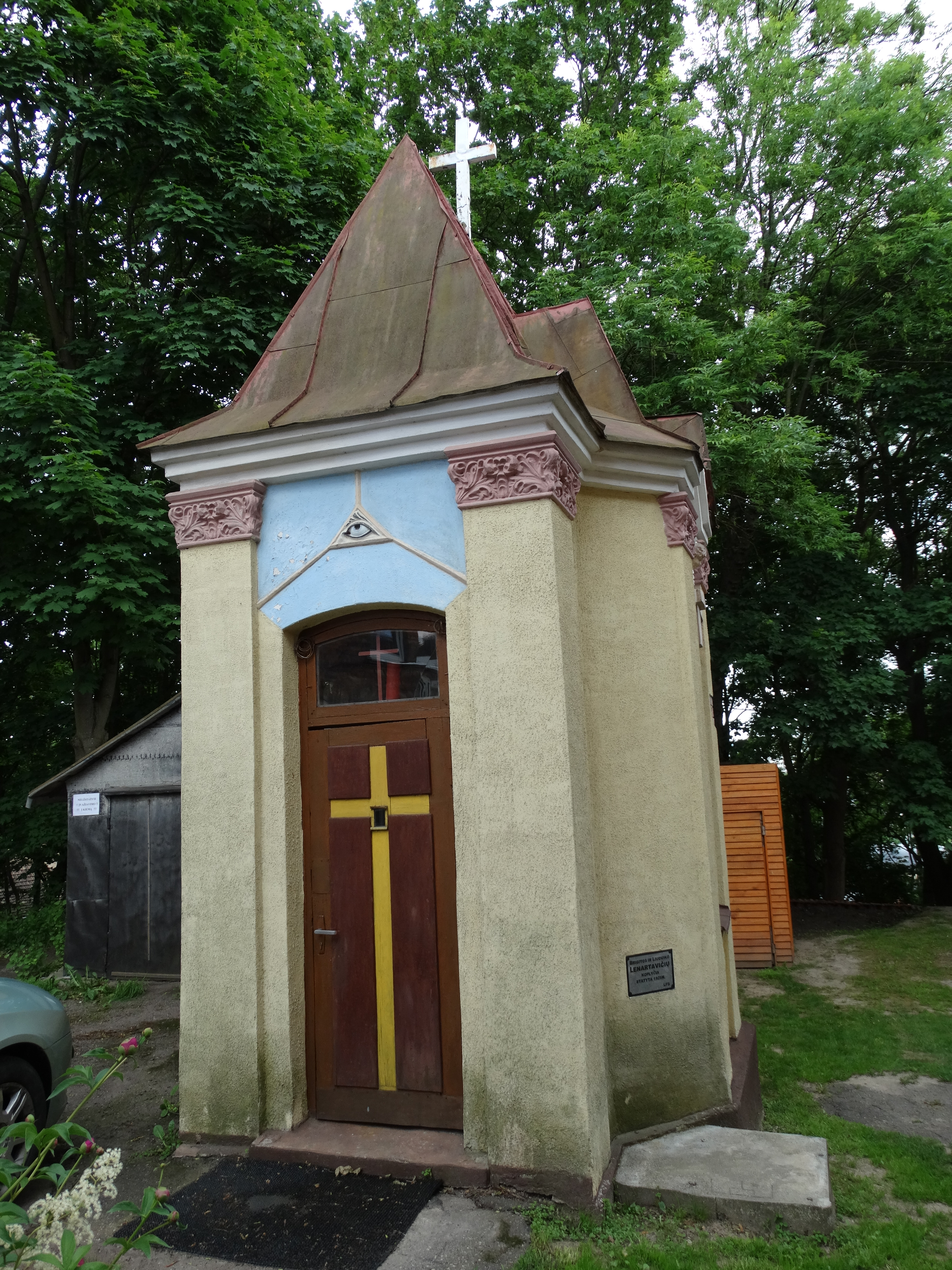 Chapel in Žaliakalnis, Kaunas, Lithuania